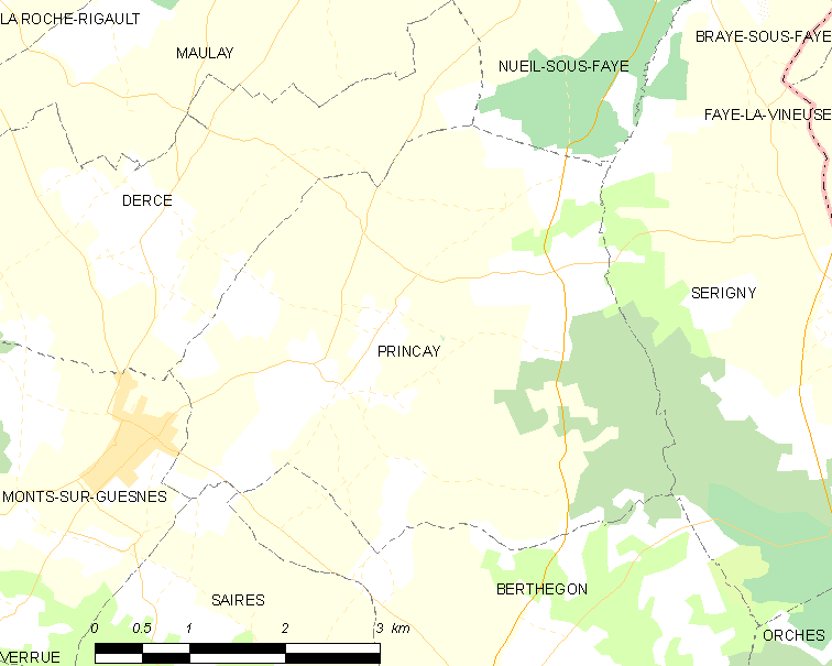 Map of French municipality Prinçay